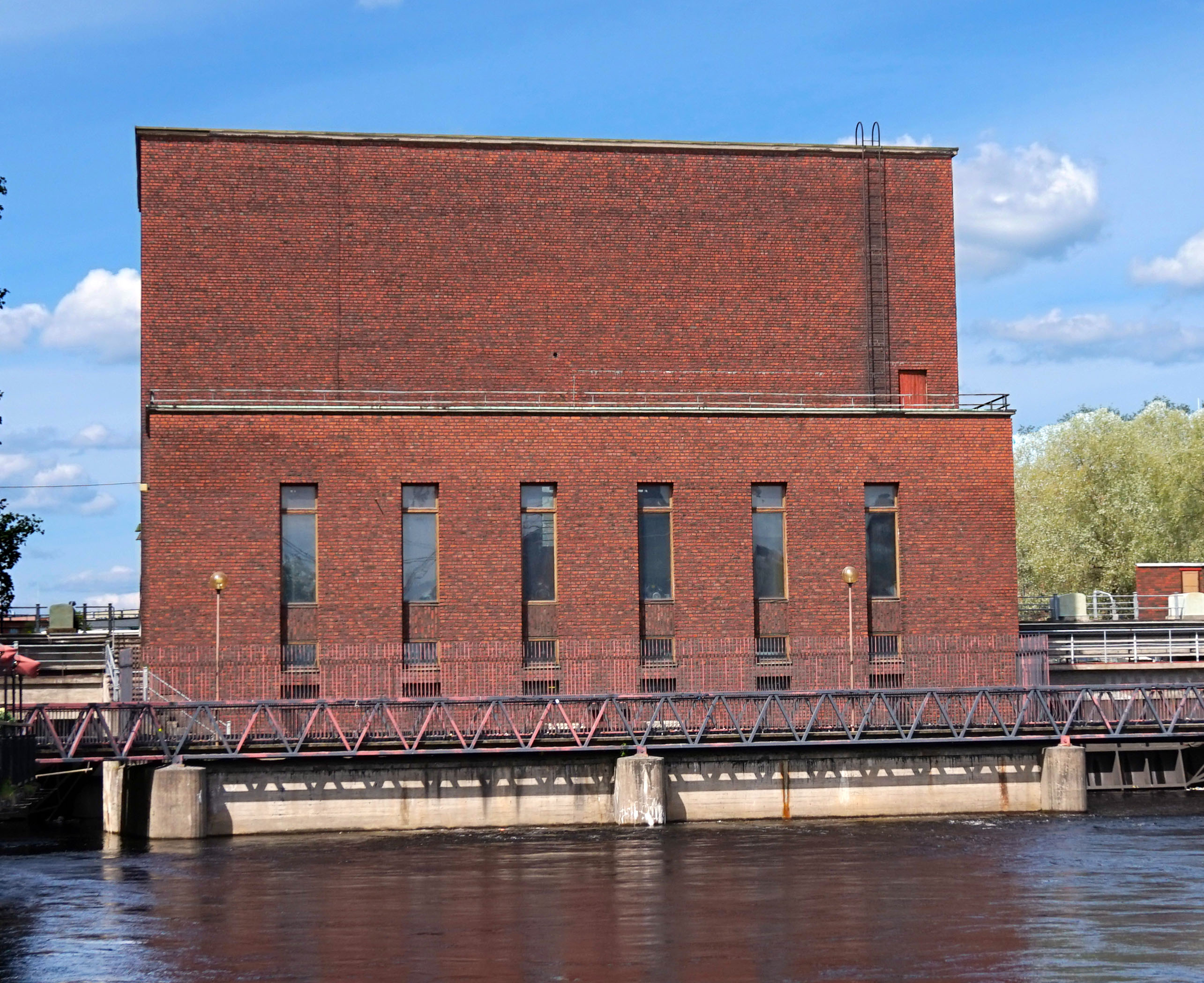 Tampere, Finland